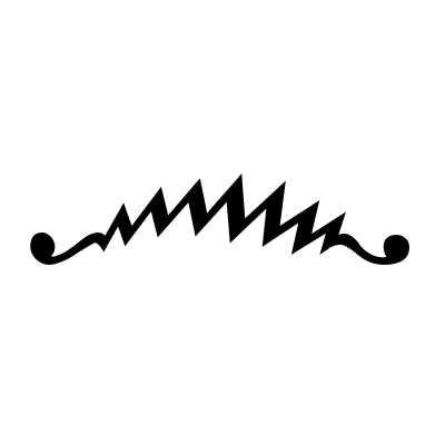 Kundaliya -- the 'full stop' in Sinhala script. සිංහල: කුණ්ඩලිය - සිංහල විරාම ලකුණ